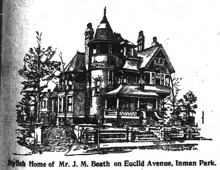 J. Beath home (Beath-Dickey House), Inman Park, Atlanta, 1895